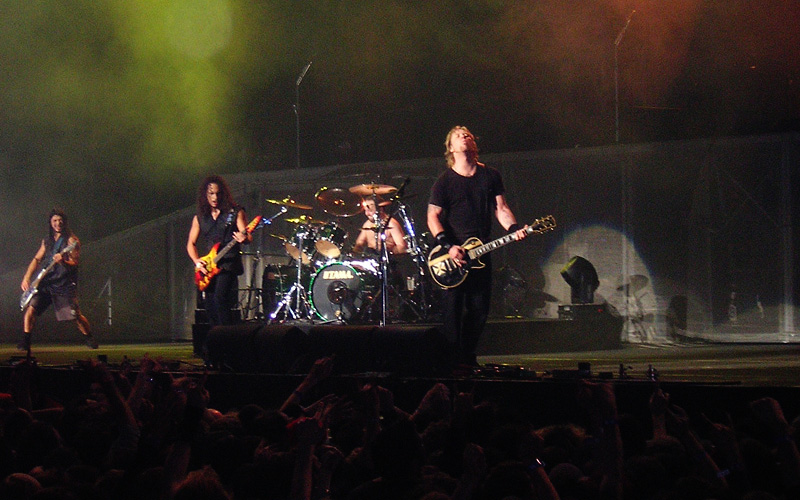 I took this photo at Metallica's show in London's Earl's Court 19 December 2003.